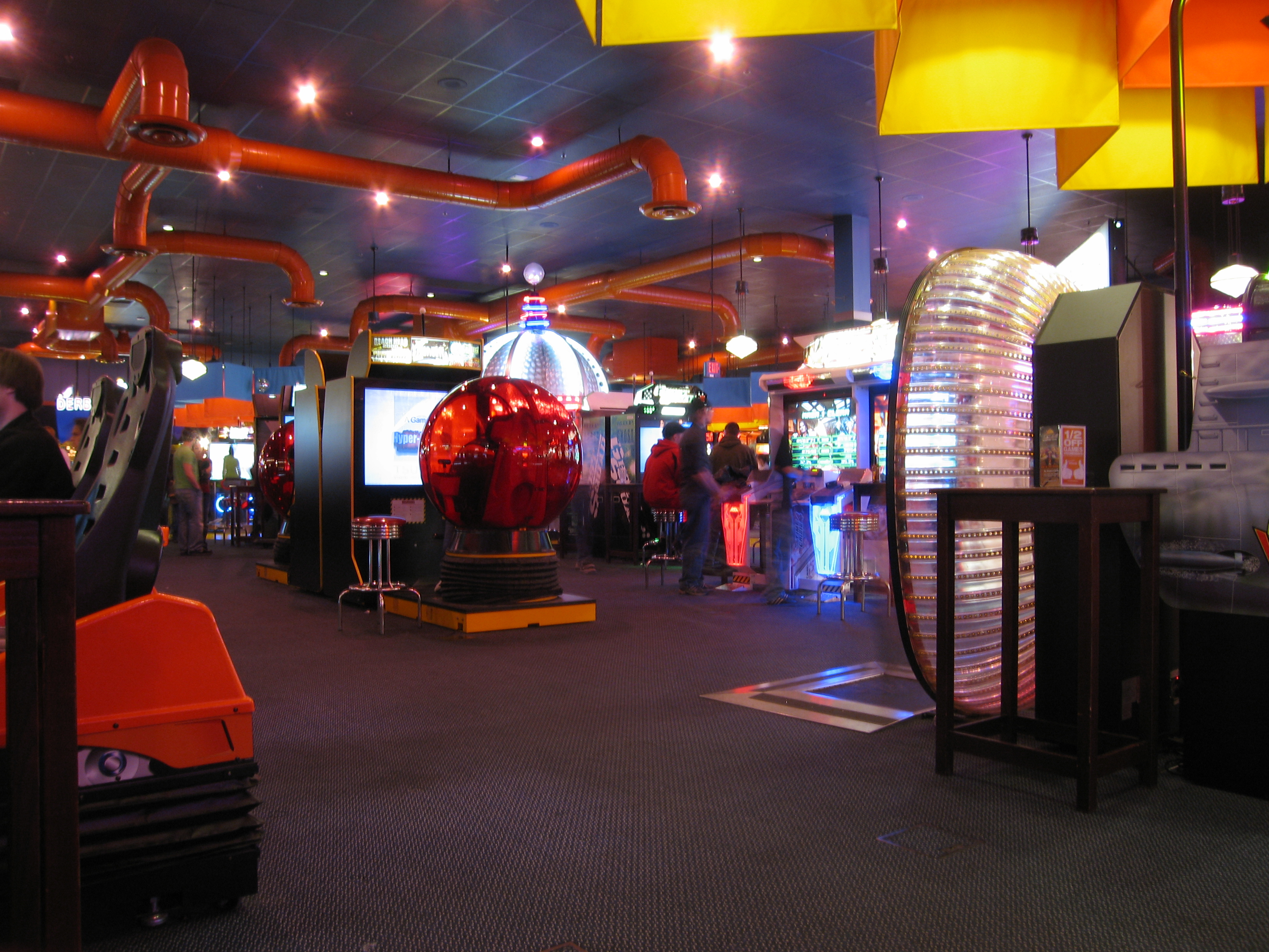 A long exposure photograph (2.5 seconds) of the video arcadeen at the Dave & Buster's in Hilliard, Ohioen.